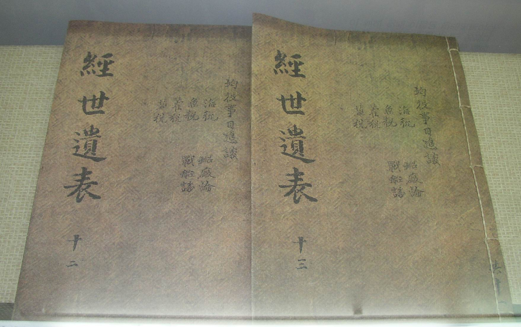 Photo of a book titled "Gyeongse yupyo" written by Jeong Yak-yong, a prominent Korean Silhak philosopher during the late period of the Joseon Dynasty.